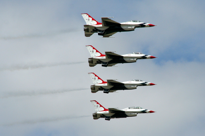 The Thunderbirds doing their thing. Sorry guys not quite the Red Arrows.